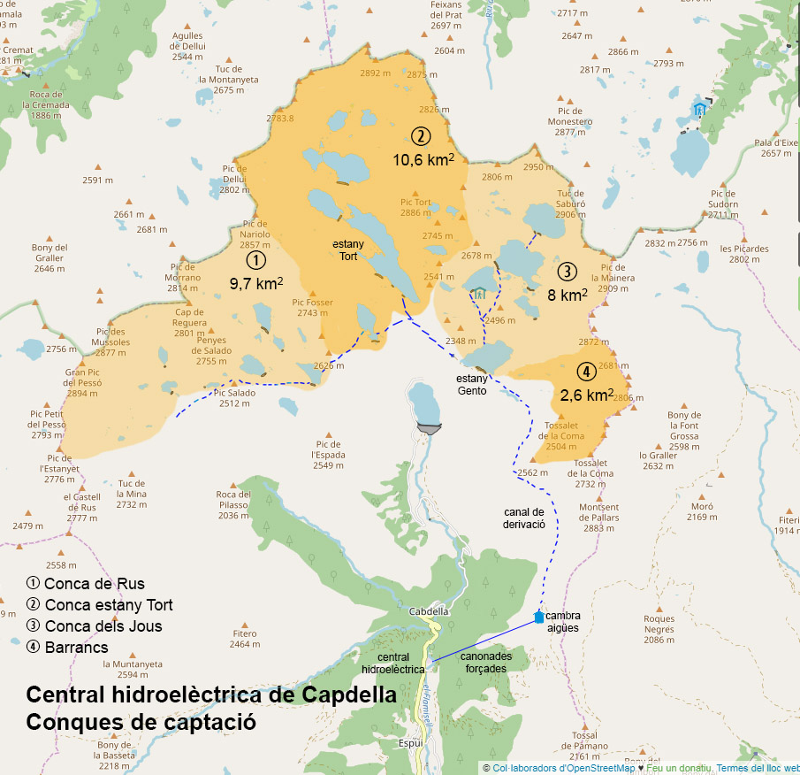 Drainage basins of Capdella hydropower plant (Catalonia)